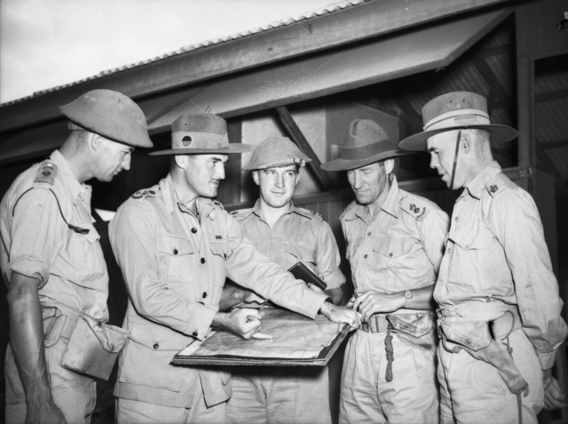 Australian War Memorial (AWM) catalog number 025958 Sourced from: Copyright: The AWM record for this photo states that the copyright status is 'clear'. The photo was taken in 1942. AWM Caption: PORT MORESBY, PAPU, 1942-07. GROUP OF OFFICERS OF 30TH AUSTRALIAN INFANTRY BRIGADE. LEFT TO RIGHT:- LIEUTENANT-COLONEL O.A. KESSELS, OFFICER COMMANDING 49TH AUSTRALIAN INFANTRY BATTALION, BRIGADIER S. H. W. C. PORTER, COMMANDING 30TH AUSTRALIAN INFANTRY BRIGADE; LIEUTENANT-COLONEL N. L. FLEAY, COMMANDING KANGA FORCE; LIEUTENANT-COLONEL W. T. OWENS, OFFICER COMMANDING 39TH AUSTRALIAN INFANTARY BATTALION; AND MAJOR J. A. E. FINDLAY, SECOND-IN-COMMAND, 39TH AUSTRALIAN INFANTRY BATTALION. Copyright: The AWM record for this photo states that the copyright status is 'clear'. The photo was taken in 1942. The AWM allows the use of images from its online database whose copyright has expired for non-commercial purposes only on the condition that the AWM's watermark is not removed. Higher resolution images may be ordered through the AWM (Source: email from the AWM to Nick Dowling 6 January 2006). The copyright has expired on this image. The AWM, however, requires that the AWM watermark is not removed and that permission be sought for commercial use. Higher resolution versions of this image may be ordered through the AWM Website at